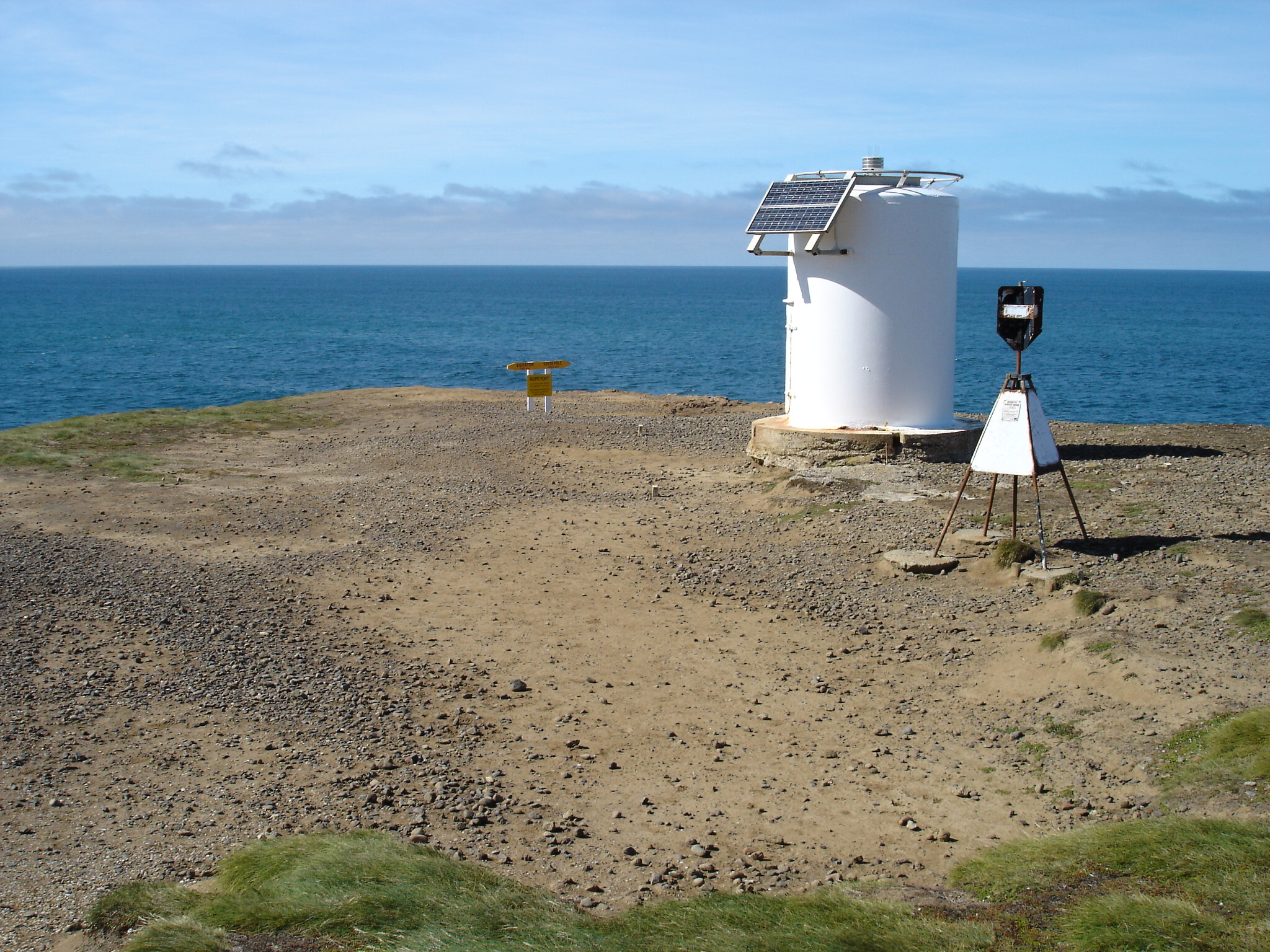 Slope Point, southernmost cape of New Zealand's South Island